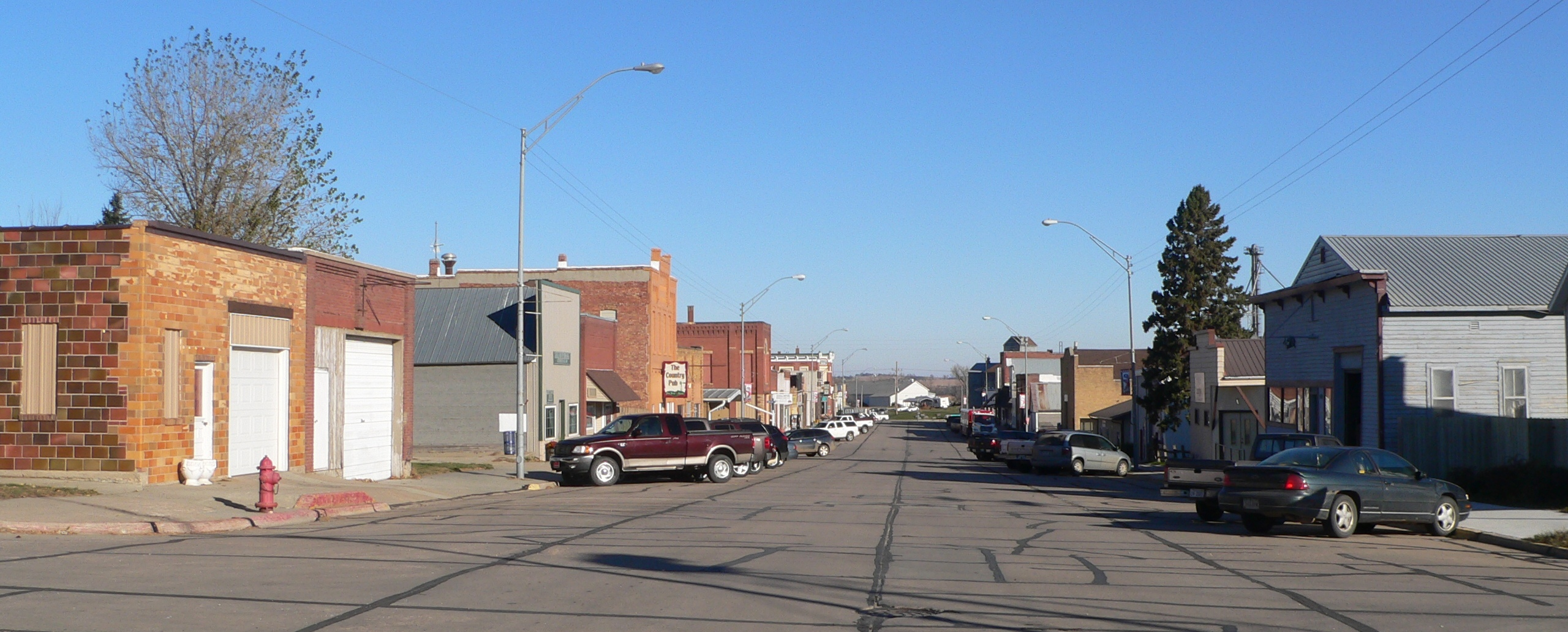 Downtown Bancroft, Nebraska: Main Street, looking north from about Elm Street.